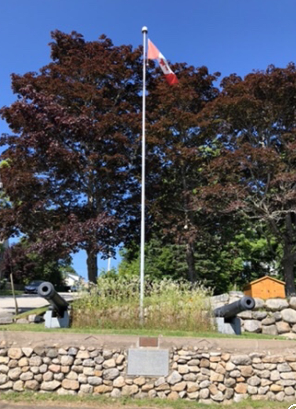 Chester Cannons, Chester, Nova Scotia - used to defend the town in the Raid on Chester (1782)